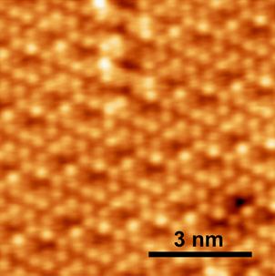 Tunneling spectroscopy measurements on the cleaved Cd3As2 (112) surface.